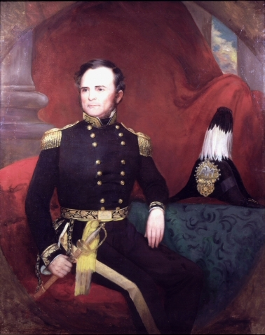 American soldier and Confederate General Gideon Pillow (1806-1878). Tennessee Portrait Project